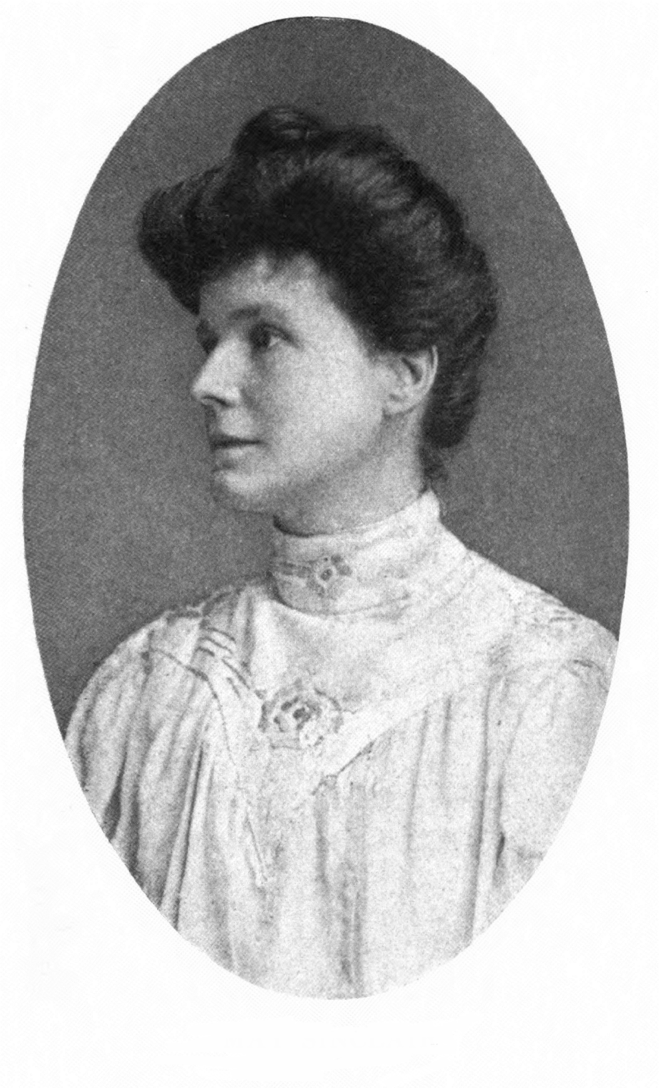 May Sinclair was the pseudonym of Mary Amelia St. Clair (24 August 1863 – 14 November 1946), a popular British writer who wrote about two dozen novels, short stories and poetry.